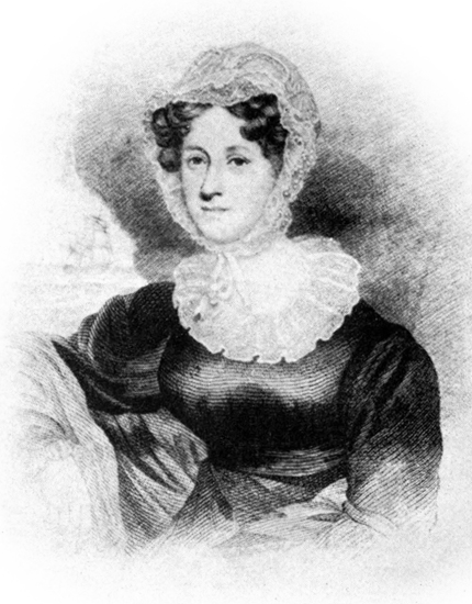 Portrait of Mrs. Mary Mercy Moor Ellis (1793-1815), wife of William Ellis from Memoir, Boston, 1836.